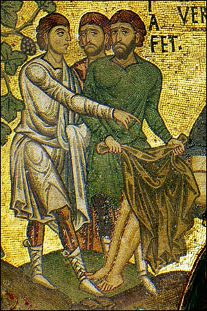 Noah's Nakedness. 12th-13th century. Mosaic Cathedral of the Assumption, Monreale, Sicily